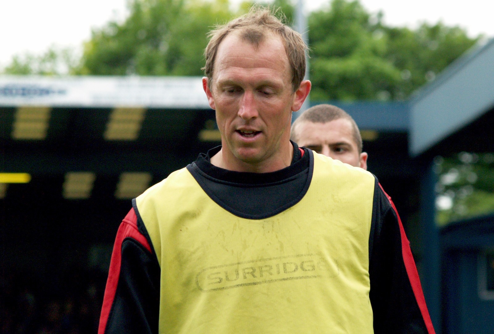 Bury FC forward Andy Morrell during the warm up at Gigg Lane, home of Bury Football Club prior to the Bury vs. Shrewsbury Town game. Sunday 10th May 2009